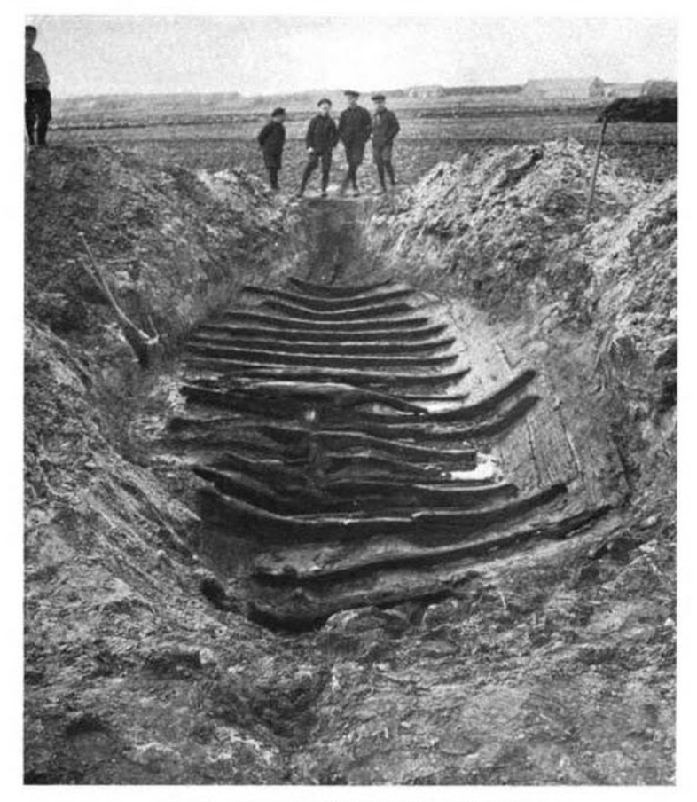 The Ship of Galtaback, during the excavation in 1928